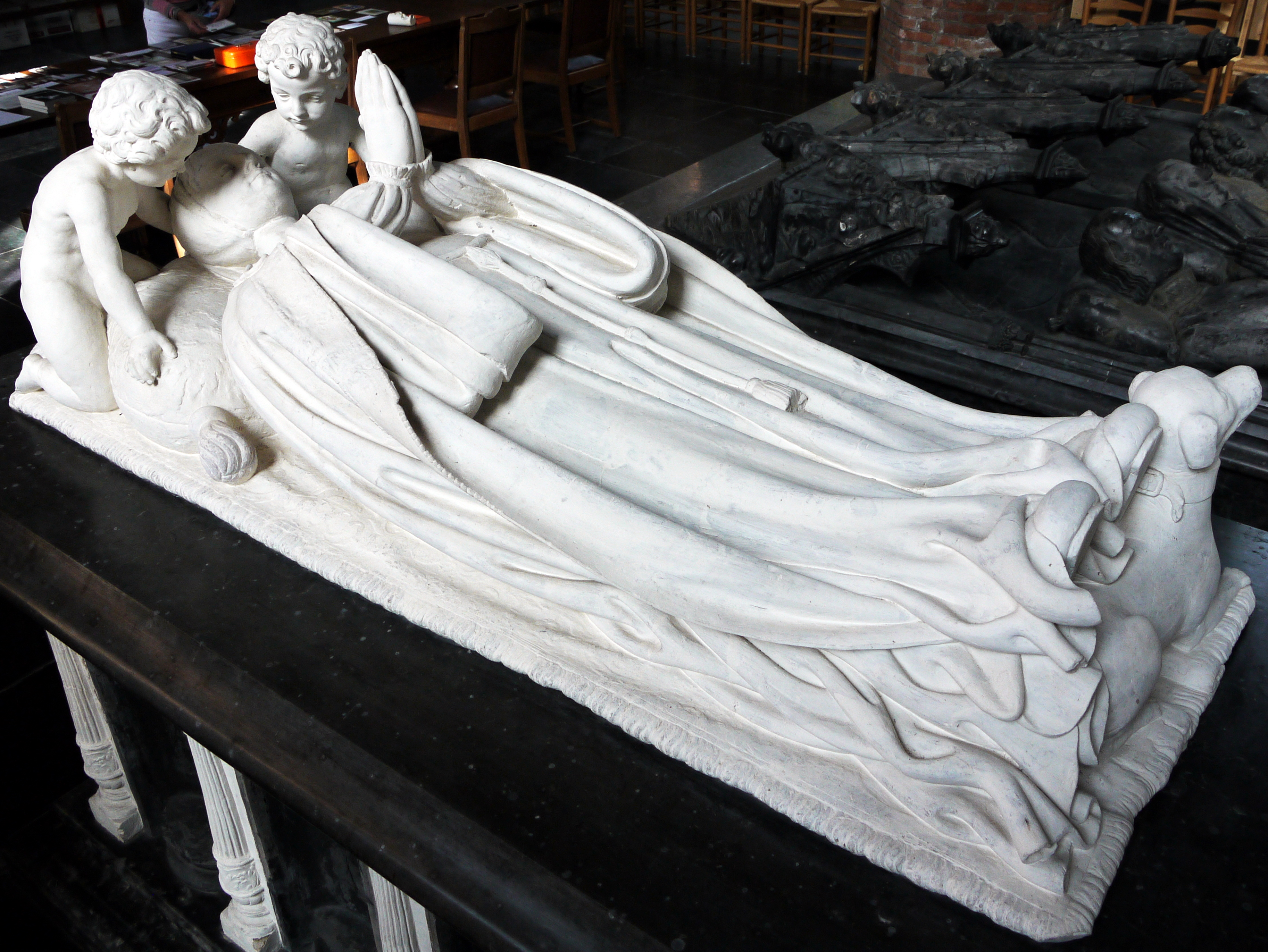 Built in the 15th century AD.